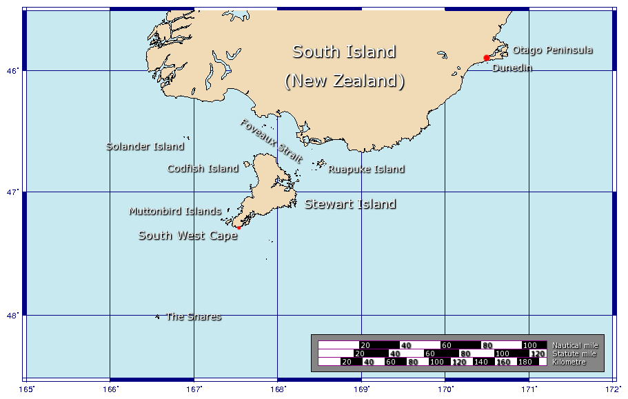 A map of the area around New Zealand's Stewart Island. Generated using GMT.